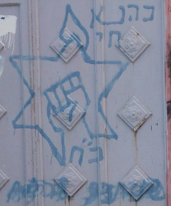 Graffiti of the Kach Party logo, taken by me in Hebron. Detail of a larger image which is available on my website gallery. Other examples of Jewish fundamentalist graf in al-Khalil are here and here. An Israeli friend of mine told me that the word for Kach below the logo is spelt in an irregular way to make it look like the Hebrew word for "force" or "violence" - a sort of double meaning.